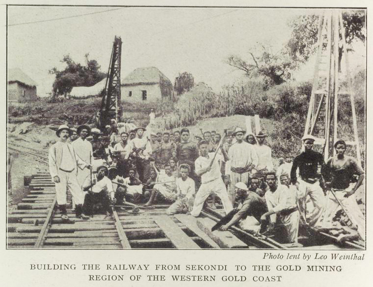 "Building the railway from Sekondi to the gold mining region of the Western Gold Coast"